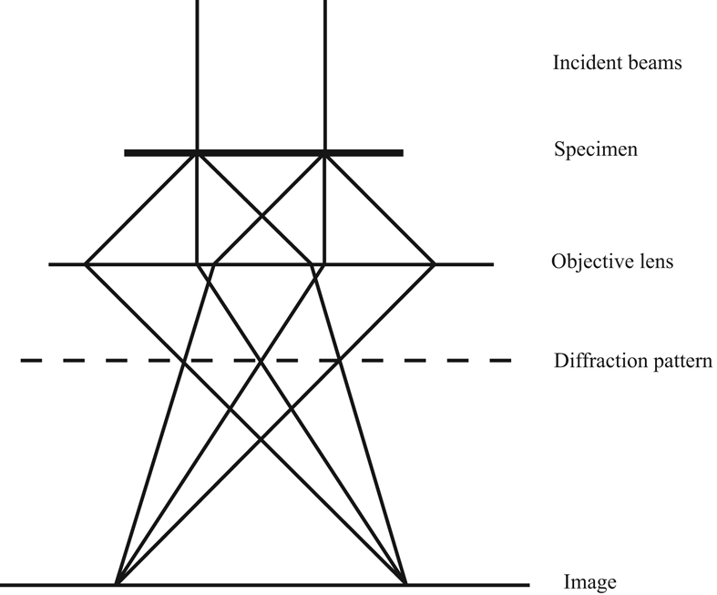 This is a simple sketch of the beam path of the electrons in a TEM after the illumination system. A Parallel beam of electrons enters the speciemen and are scattered in varius directions. The objective lens is used to collect all scattered beams originating from the same point on the sample in one point in the image plane (bottom). Note also that in the back focal plane (marked 'diffraction pattern') electrons originating at different point on the sample, but scattered in the same direction, are collected. Observing the electrons in this plane gives the diffraction pattern, containing information on the angular scattering distribution of the electrons. The diffraction pattern and the image are related through a Fourier transform.